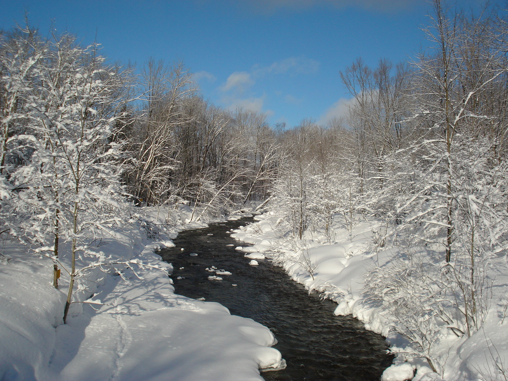 View of the North Branch of the Salmon River, taken from bridge on Harvester Mill Road, north of Redfield, NY in the Tug Hill region, in January of 2009.